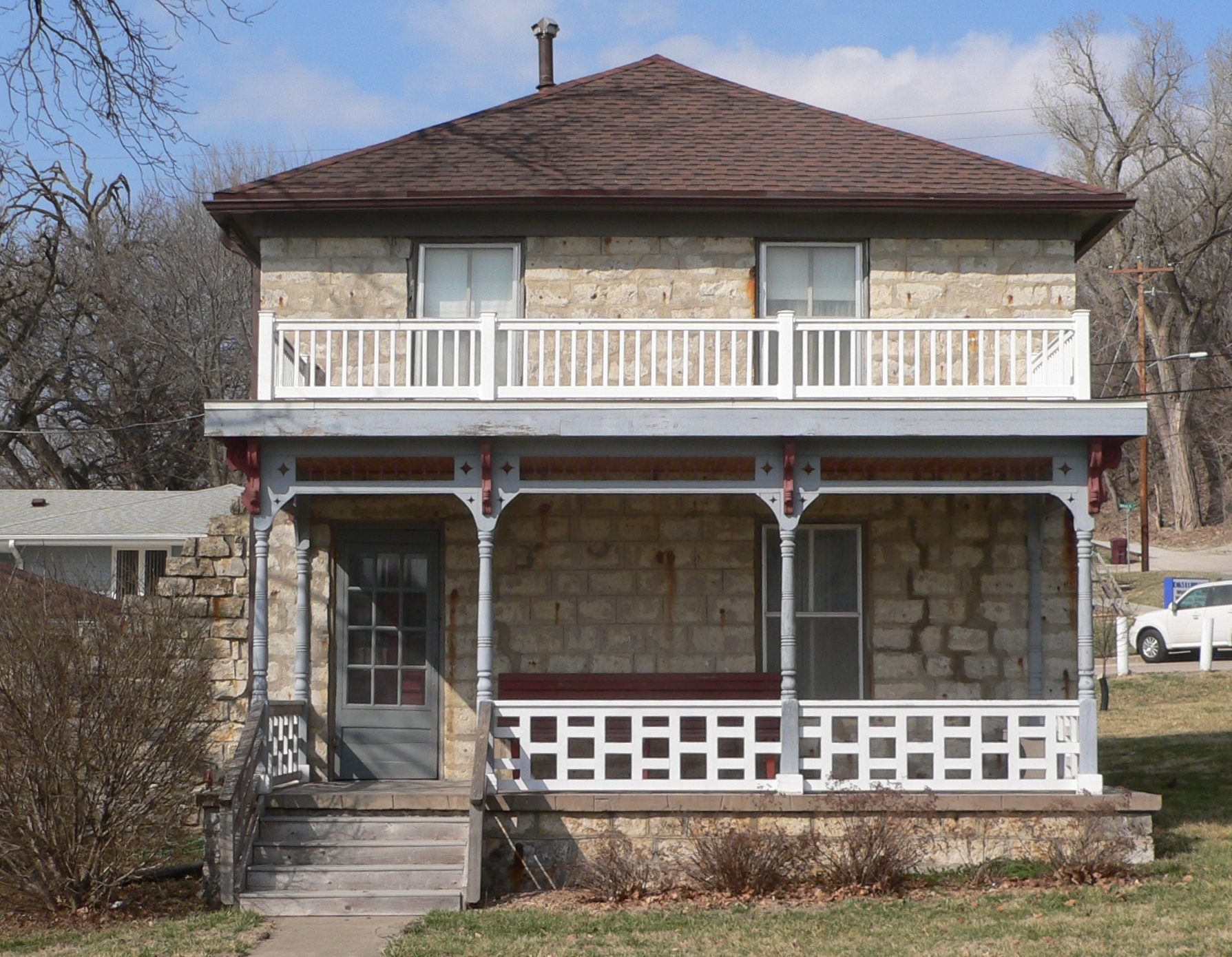 Heritage House Museum, located on H Street between Randolph and Commercial Streets in Weeping Water, Nebraska; seen from the south.